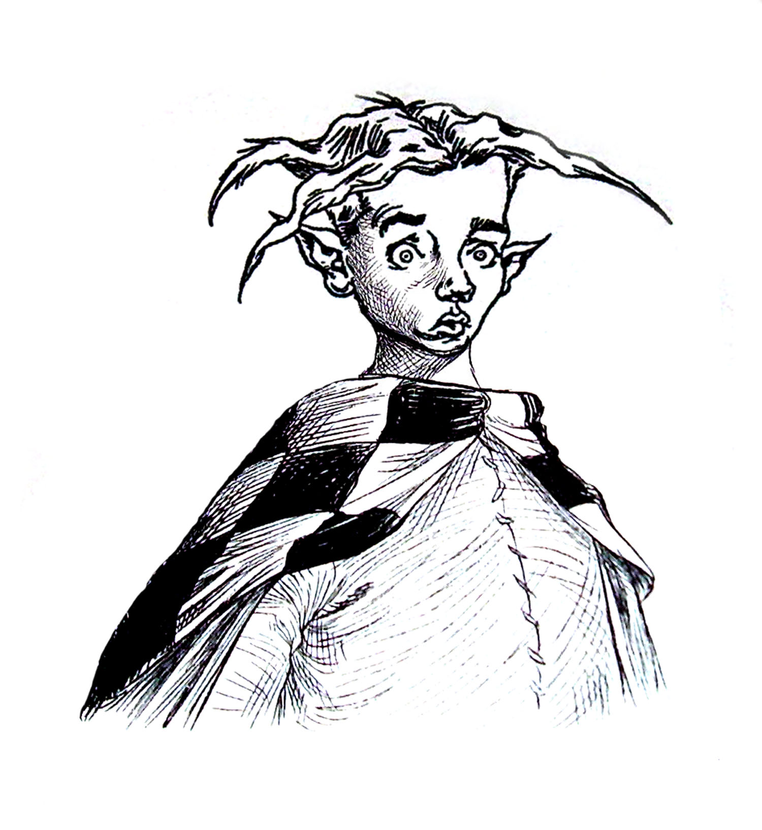 Cowlquape Pentephraxis.